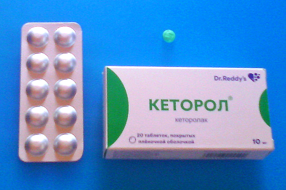 Ketorolac, sold under the brand name Toradol among others, is a nonsteroidal anti-inflammatory drug (NSAID) used to treat pain.